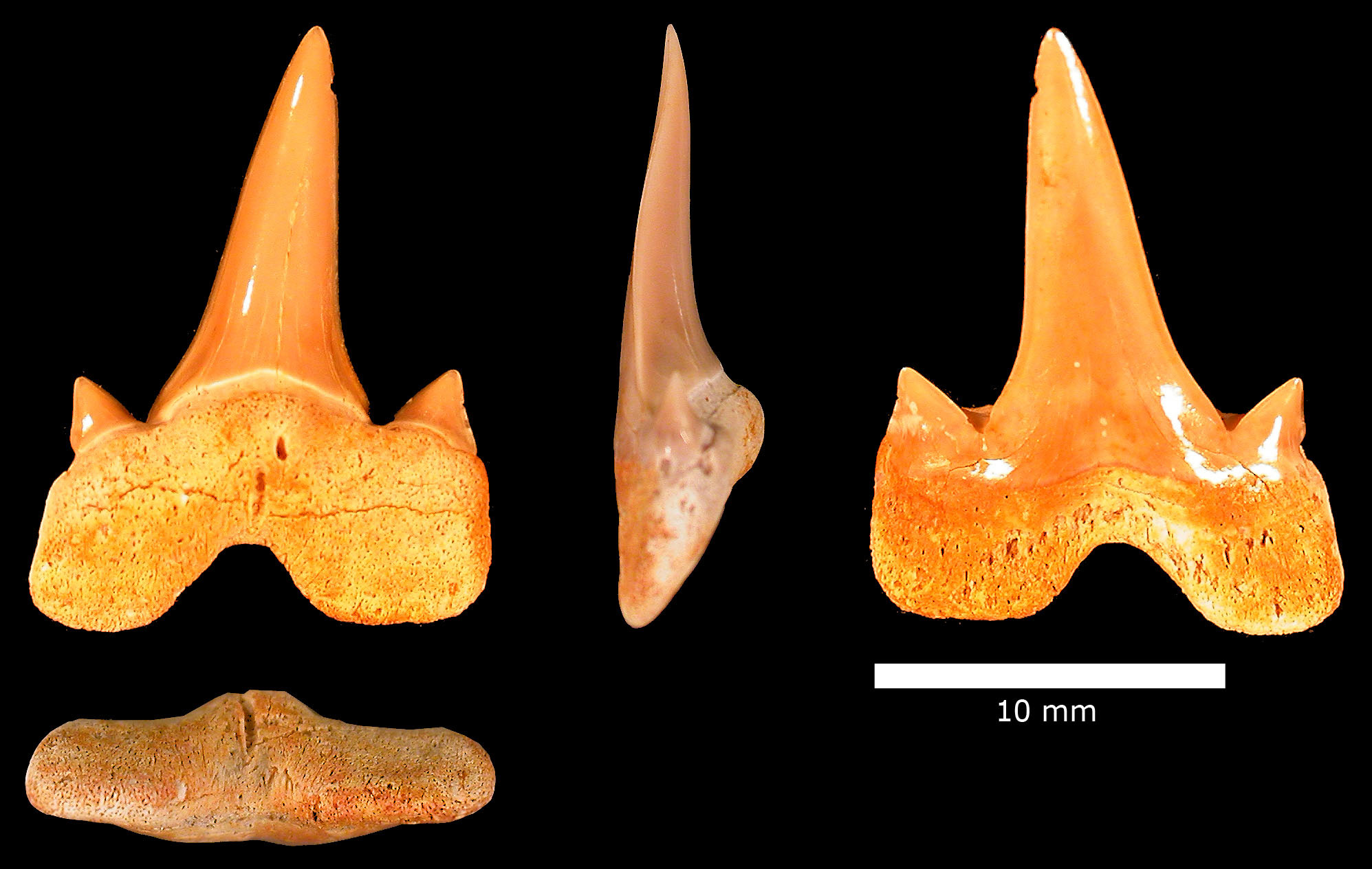 Cretalamna appendiculata tooth from the Menuha Formation, Makhtesh Ramon region, southern Israel.